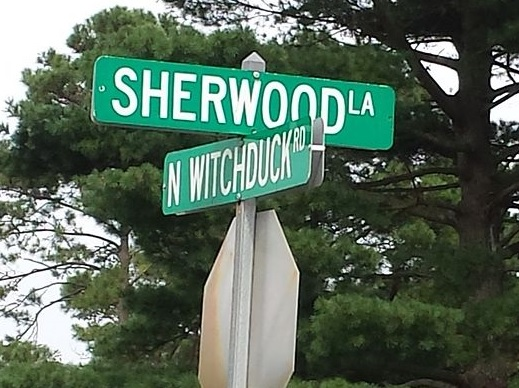 The street sign at the intersection of North Witchduck Road and Sherwood Lane in the Witch Duck Point housing area in Virginia Beach, VA. Many things are named "Witchduck" or "Witch Duck" in Virginia Beach and both spellings are in use.